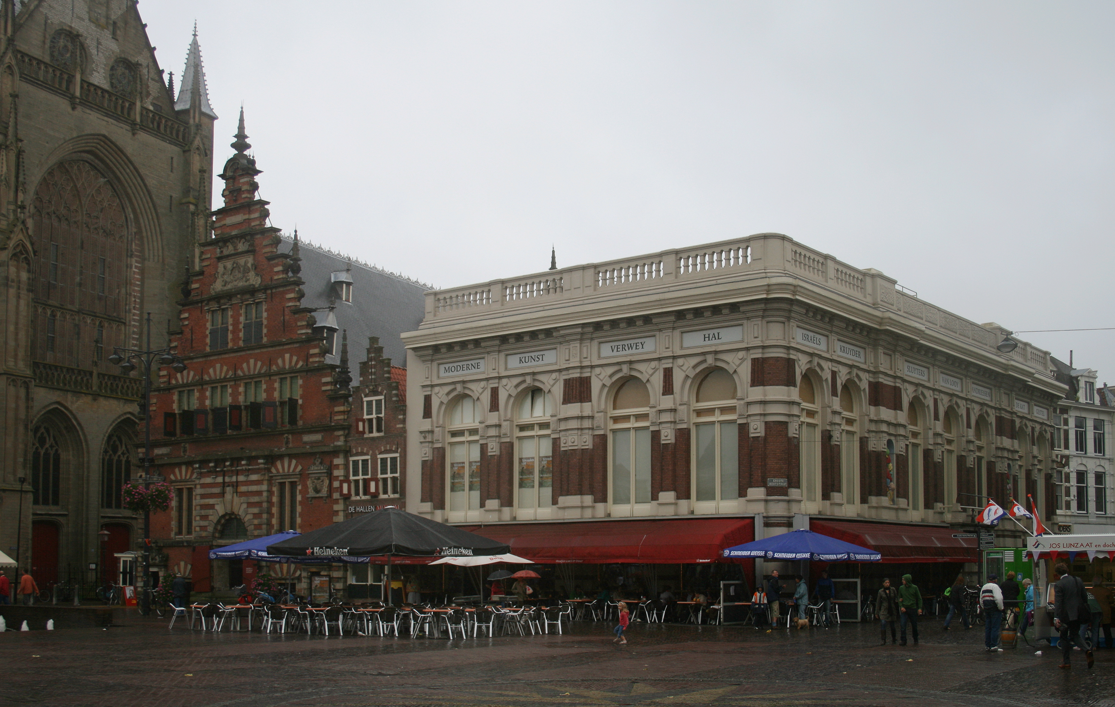 Verweyhal on the Grote Markt in Haarlem, Holland